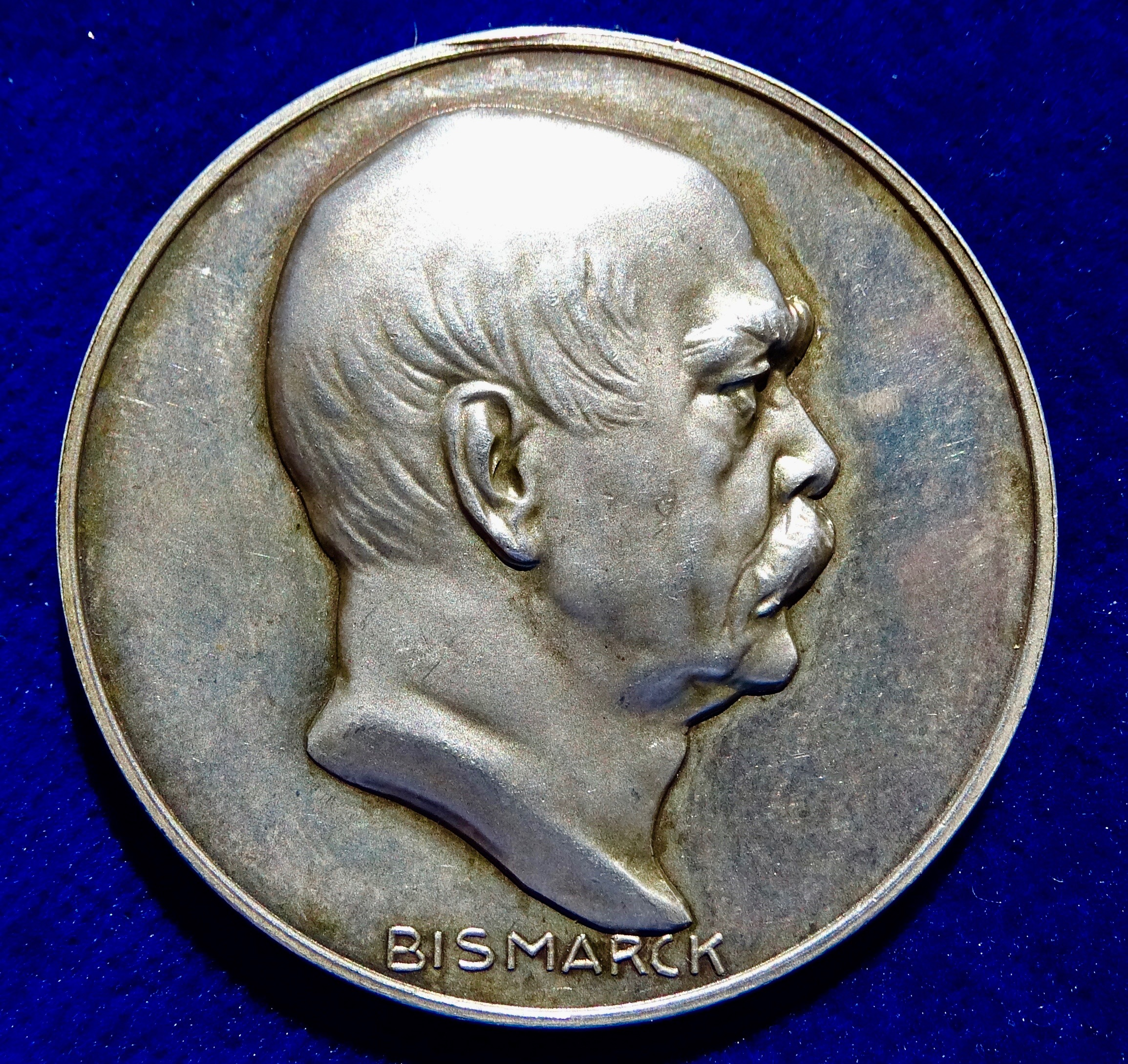 1915 WWI Judaica Silver Medal 100th Anniversary of Bismarck. Medallion d. = 34 mm. 18.35 g Ag 0.990 Fine Silver. Bismarck, Otto Graf, 1815 Schönhausen (Elbe) -1898 Friedrichsruh, Germany Plain bare head r, above "BISMACK"/ A giant carries the sculpture of the map of Germany, 2 lines at l.: "1. APRIL 1915", curved above: "DEM SCHÖPFER DES DEUTSCHEN REICHES". At edge: "Silber 990". Münzkabinett der Staatlichen Museen zu Berlin, 18242853. Medallists: (Hugo) Grünthal, Jewish numismatist, owner of Robert Ball Nachf. Berlin, 1869 Beuthen, today in Poland - 1943 Berlin & (Prof. Paul) Sturm, 1859 Leipzig - 1936 Jena, Thuringia. Condition: Nice EXTREMELY FINE, old patina.